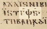 Detail of Codex Argenteus, Mt 5:34 scan of the 1927 facsimile edition. The highlighted section is the abbreviation of the Gothic word guþs ("God's"), being the genetive of guþ ("God"). The word is, just like other sacred names in the manuscript, abbreviated to gþs which is indicated by a horizontal stroke above the abbreviated word. (see David Landau: The Source of the Gothic Month Name jiuleis and its Cognates, in: Namenkundliche Informationen 95/96, 2009, p. 239-248, esp. 240-242)